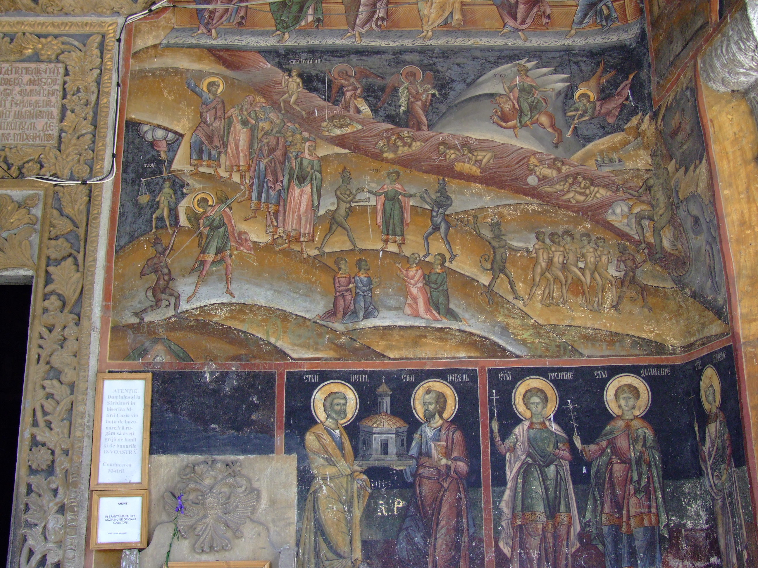 14th-century frescos in the Cozia Monastery, Romania. Cozia was painted between 1390 and 1391. Some of the original frescoes (1390) are still well preserved.